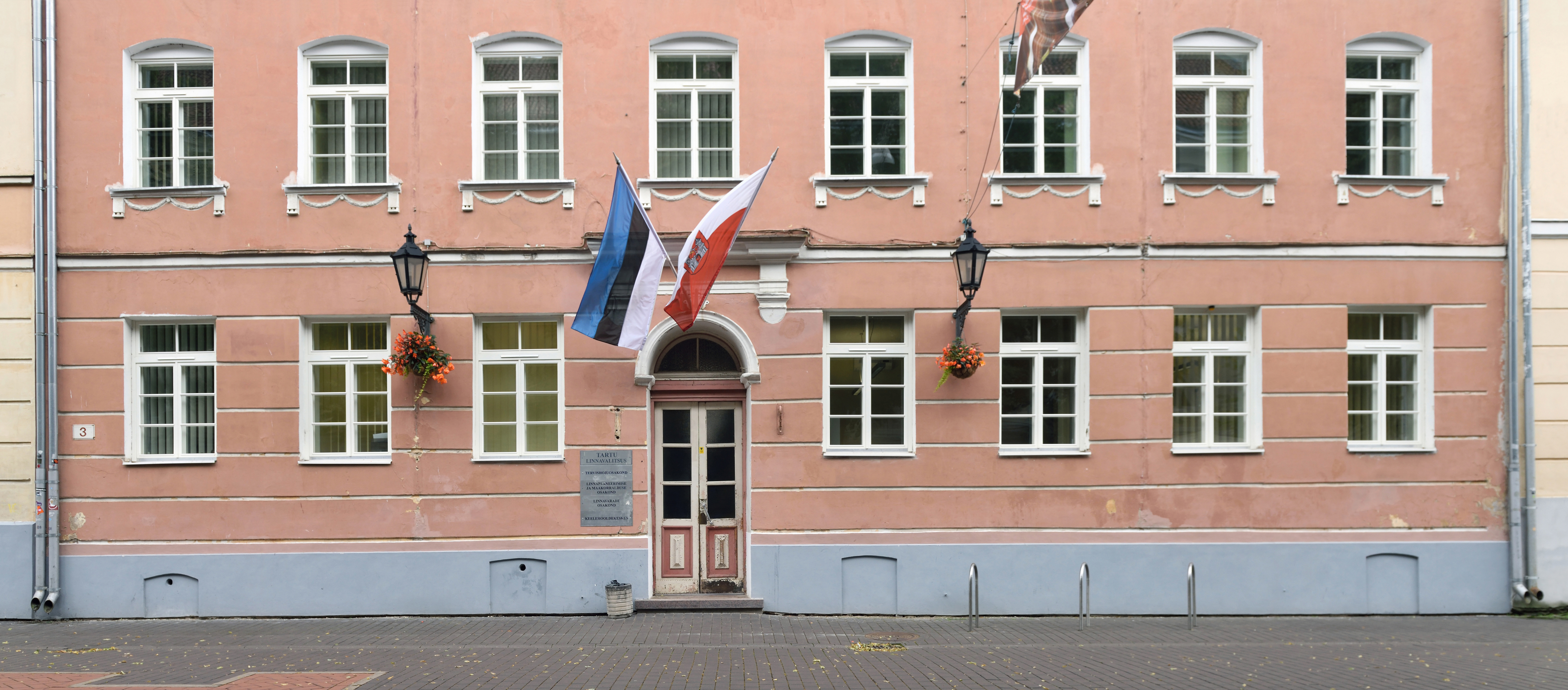 Tartu, Estonia: City centre, Küüni 3.